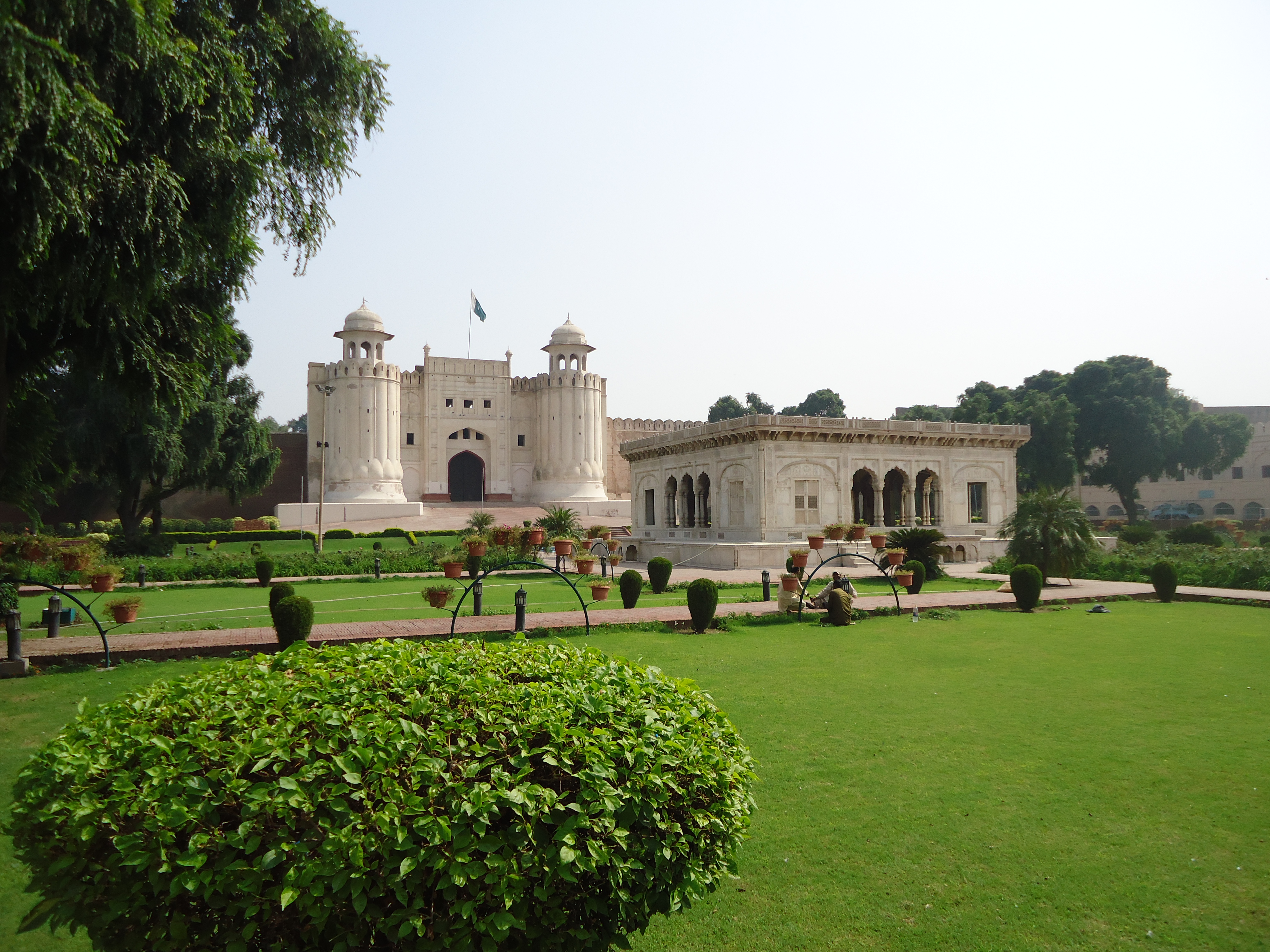 Lahore Fort complex (including Moti Masjid, Naulakha Pavilion, Sheesh Mahal and others) This is a photo of a monument in Pakistan identified as the PB-67